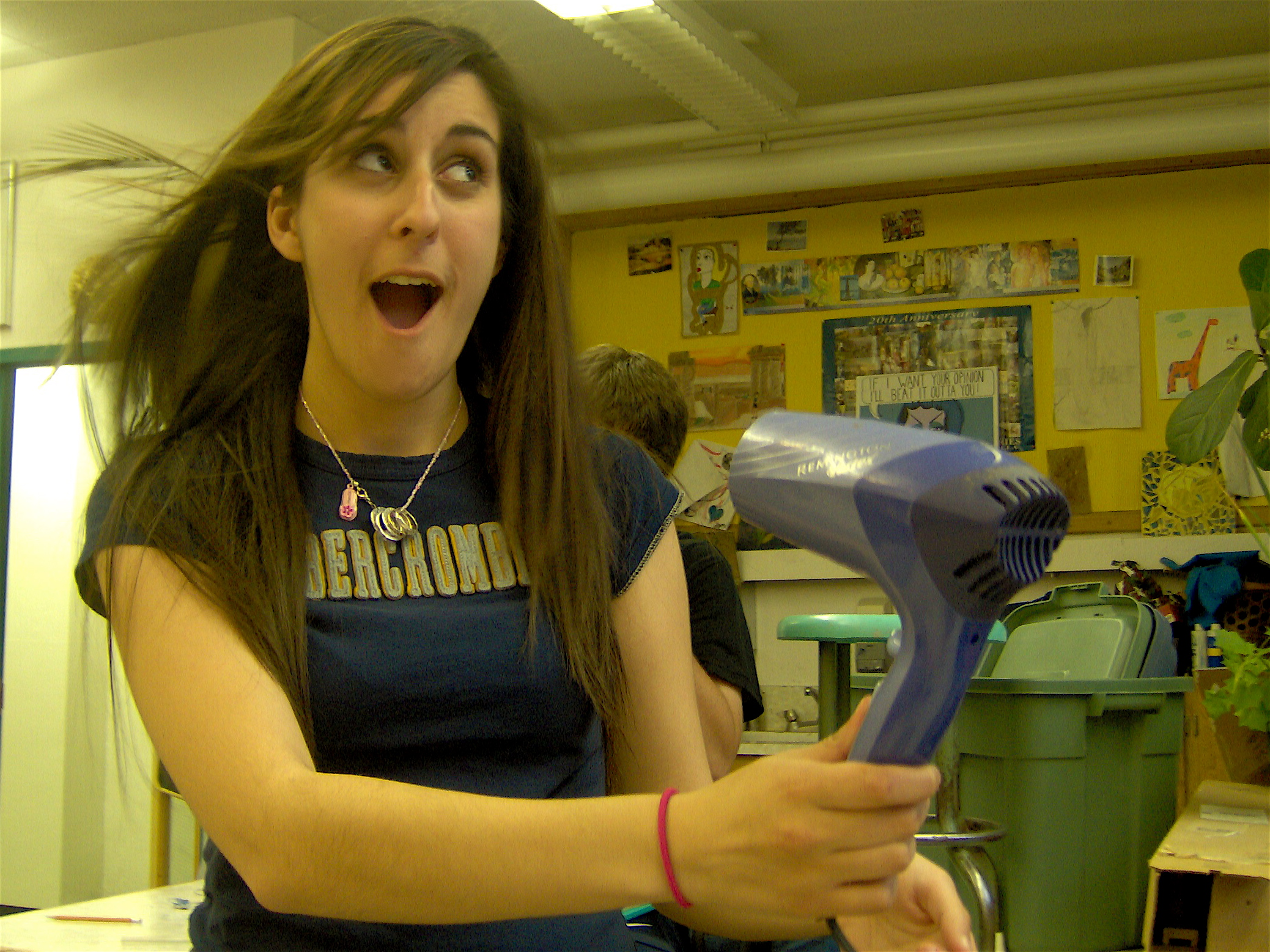 Long-haired woman posing with a blowing hairdryer.